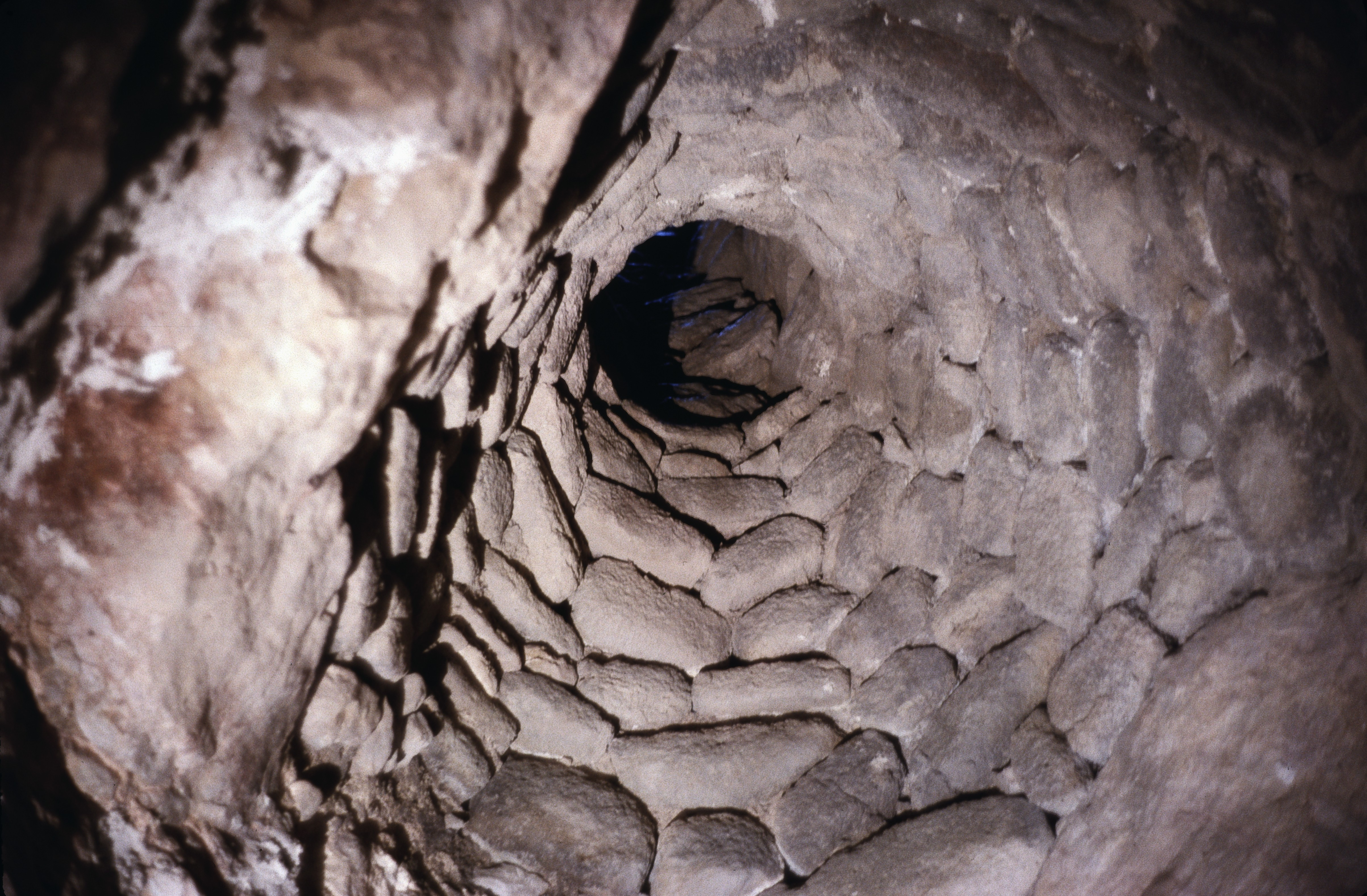 Xochicalco, Morelos, Mexico: observatory